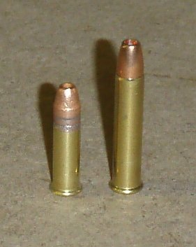 22 Long Rifle and 22 WMR rimfire cartridges